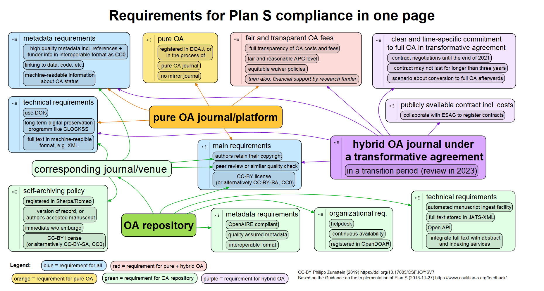 "This diagram shows requirements for Plan S compliance in one page."